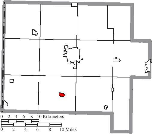 Map of the municipal and township boundaries of Van Wert County, Ohio, United States, as of the 2000 census, with the location of the village of Ohio City highlighted. Township borders are shown only in unincorporated areas in order to differentiate incorporated and unincorporated areas more clearly.